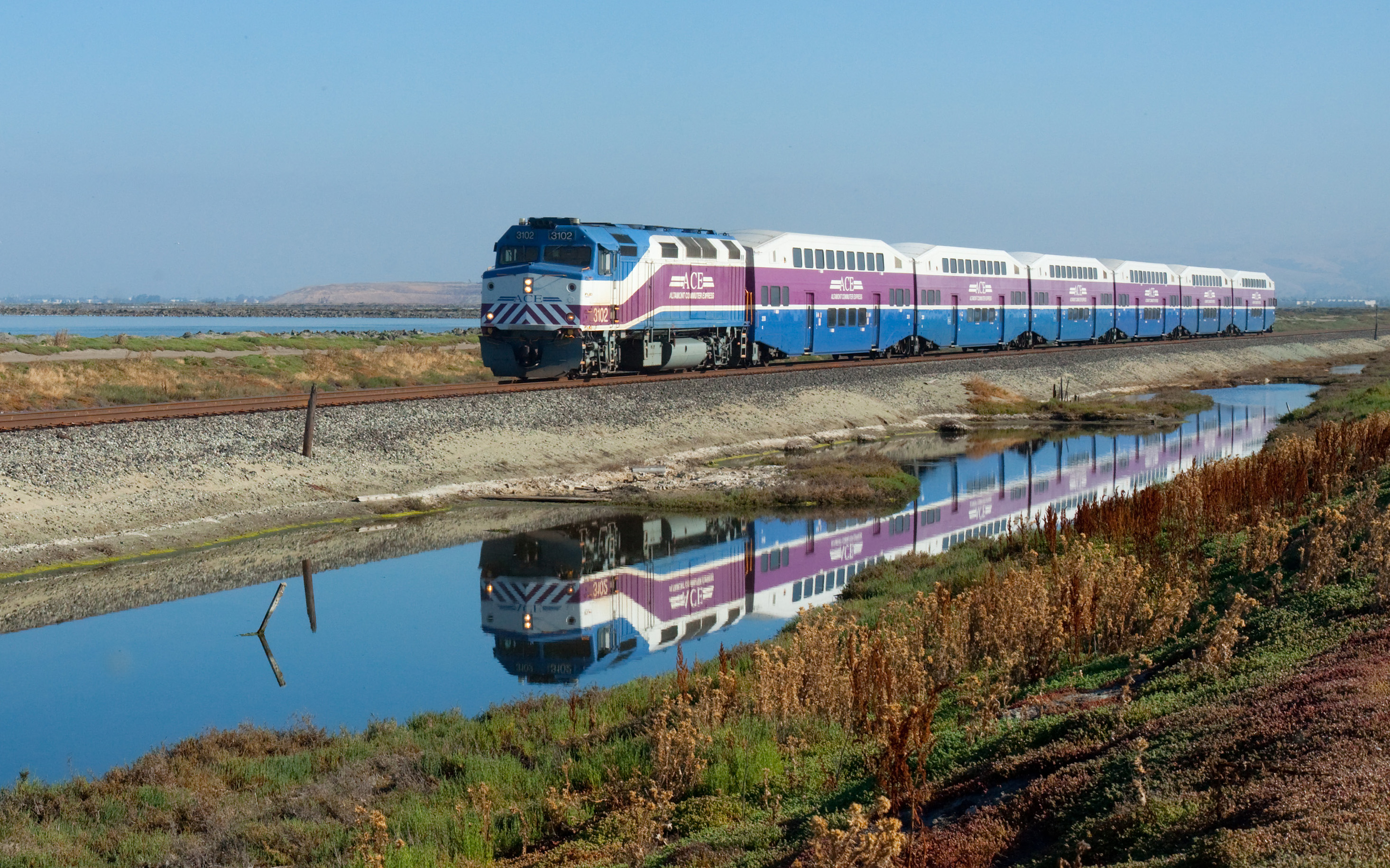 Altamont Commuter Express crossing the Don Edwards San Francisco Bay National Wildlife Refuge, between Fremont and San Jose. The train is hauled by an MPI F40PH-2C (a variant of the EMD F40PH) and consists of Bombardier Bi-Level VI coaches, including a cab car.